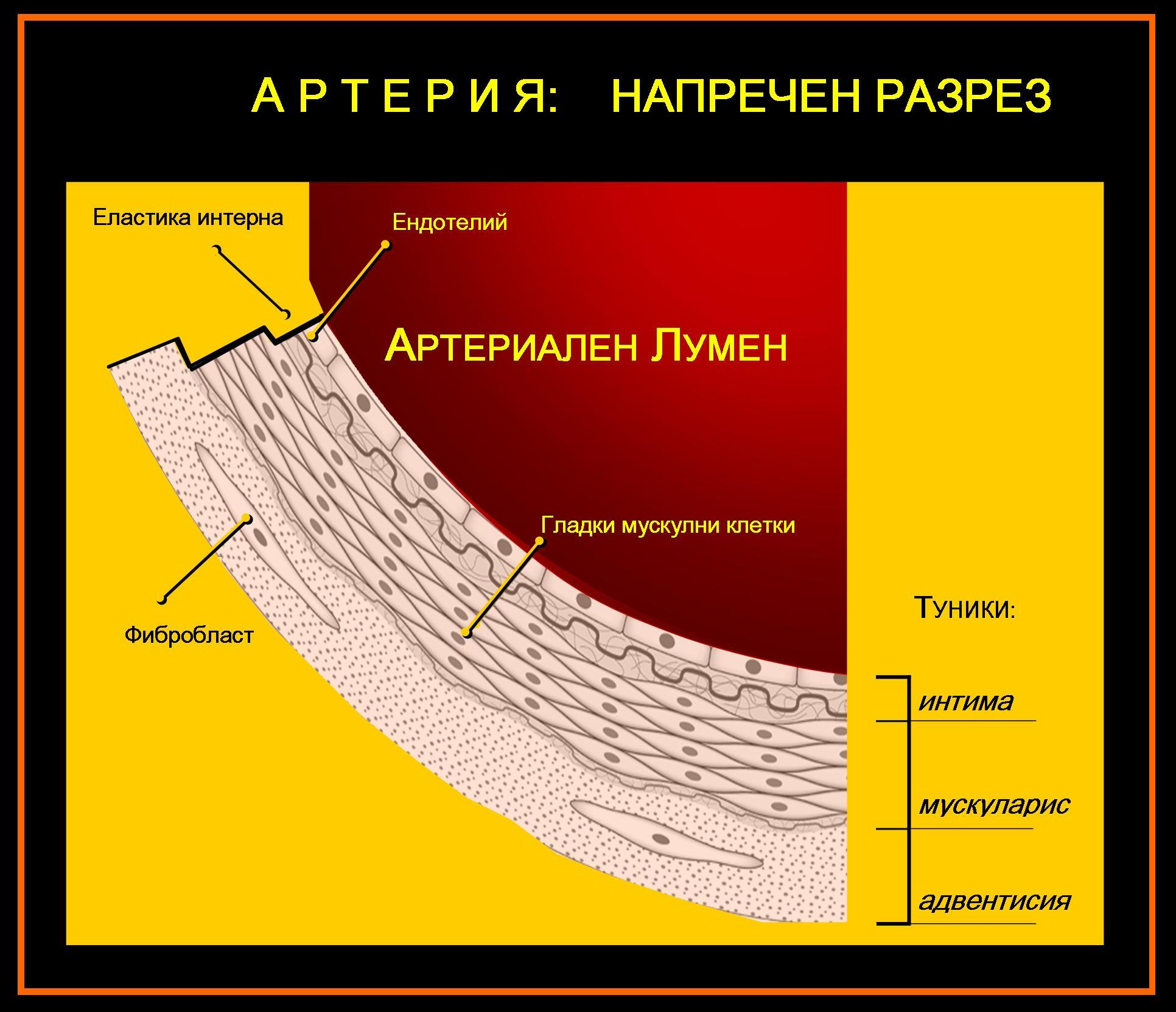 Cross-section of an artery